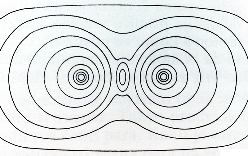 Electron density of the molecule H2